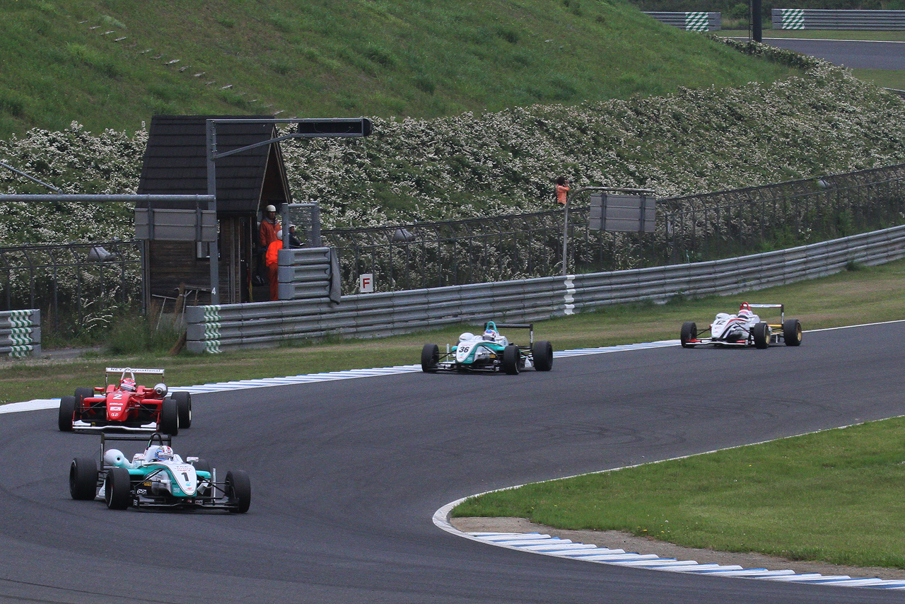 All-Japan Formula Three 2010 Motegi round: formation lap.